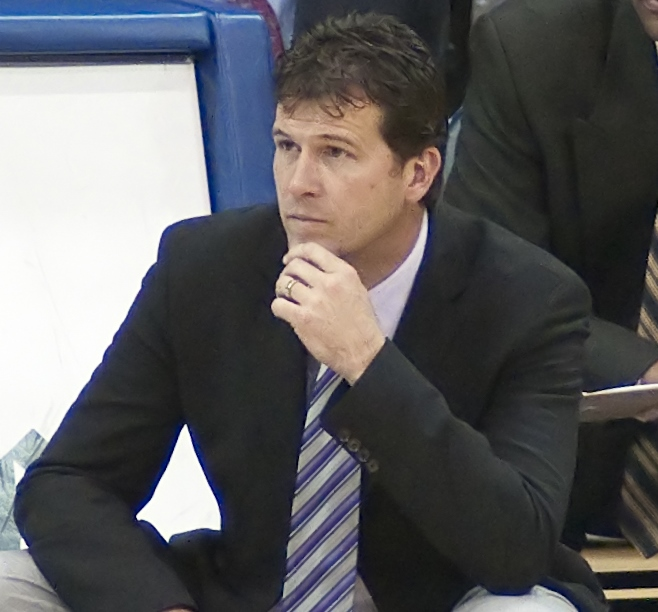 University of New Mexico men's basketball head coach Steve Alford at San Diego's Jenny Craig Pavilion for the New Mexico vs San Diego game